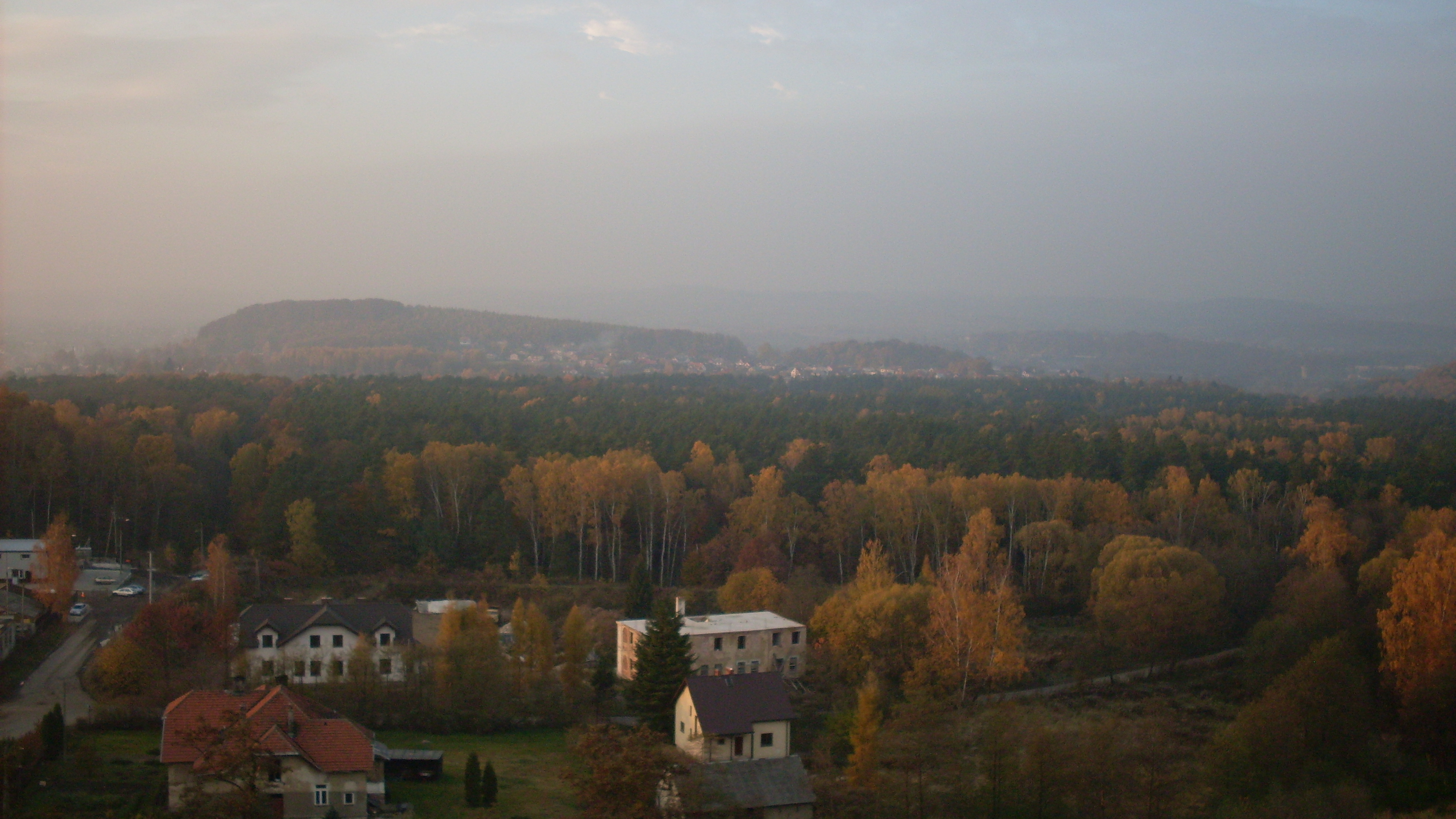 Tenczynek.Niedźwiedź